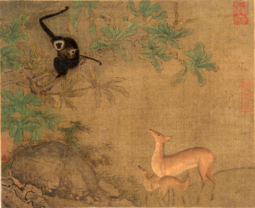 Painting of gibbons and deer by unknown artist of Southern Song Dynasty (1127–1279). Ink and color on silk. 7 x 8 3/4 in. (17.8 x 22.2 cm).